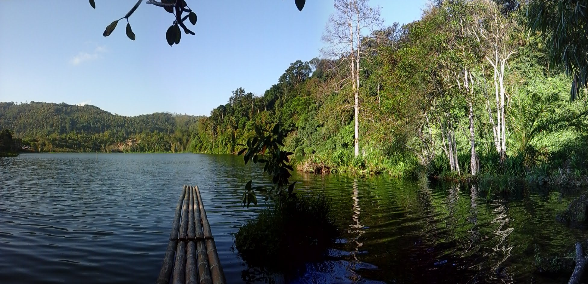 to reach this place was quite challenging, as it about two hour from capital city of Sungai penuh, but tourist will obtain the beauty of lake that part of Taman Nasional Kerinci Seblat (Kerinci Seblat National Park), at Lekuk 50 Tumbi Lempur